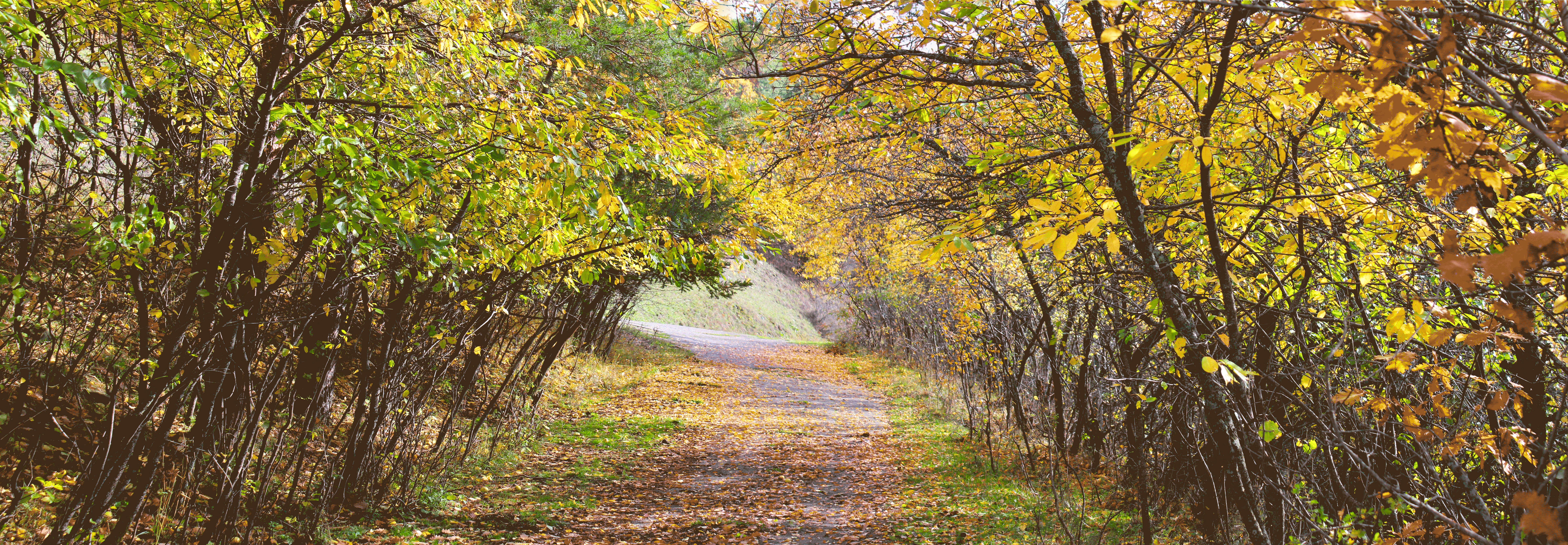 Alley in the Aghveran, autumn in Kotayk province of Armenia.